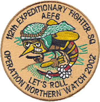 112th Expeditionary Fighter Squadron Operation Northern Watch 2002